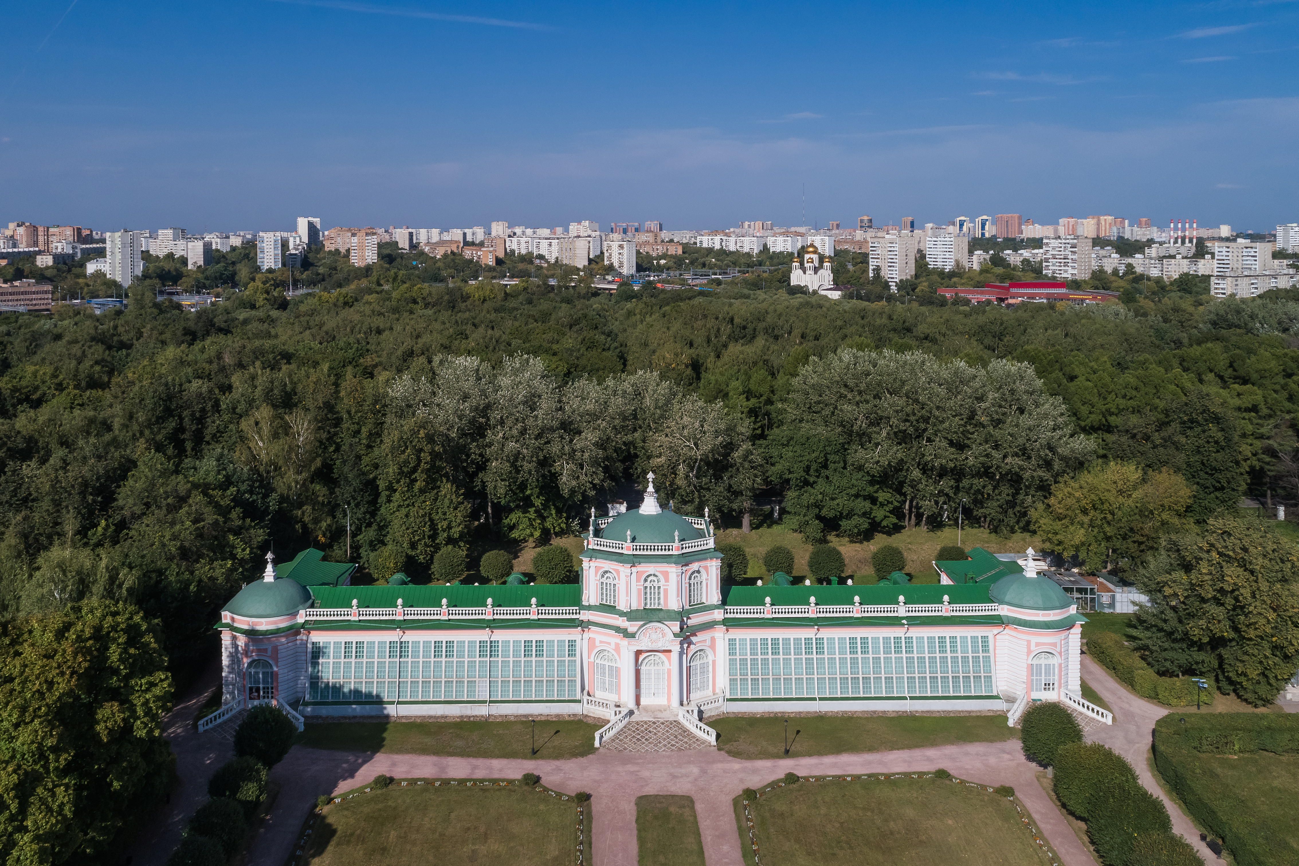 Aerial view of Kuskovo Park and Estate in Moscow, Russia